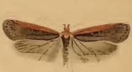 Stainton’s Natural History of the Tineina (1855–1873): Depressaria pimpinellae